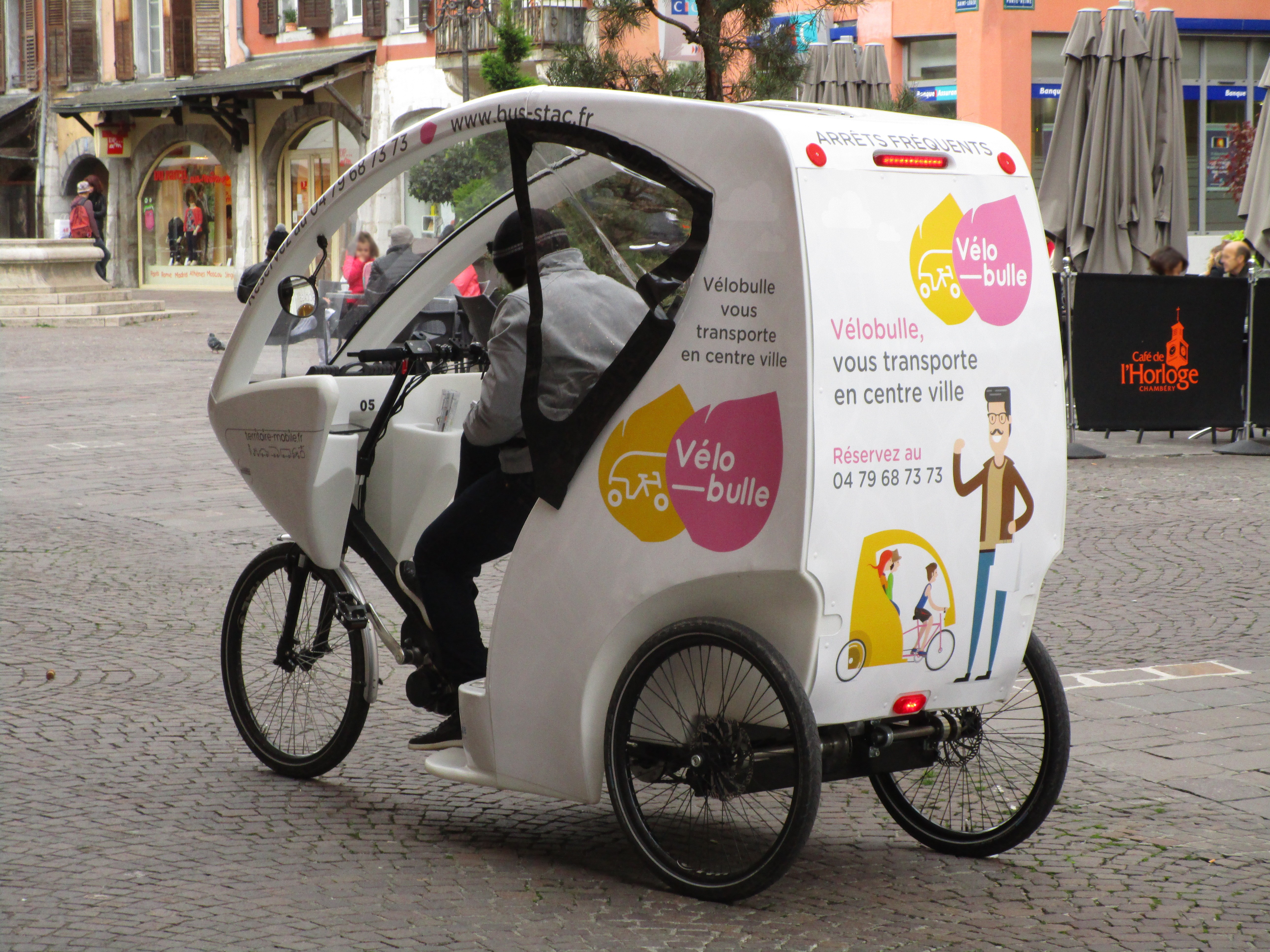 A Vélobulle (n°5) on Saint-Léger square, in Chambéry, on October 19, 2016.